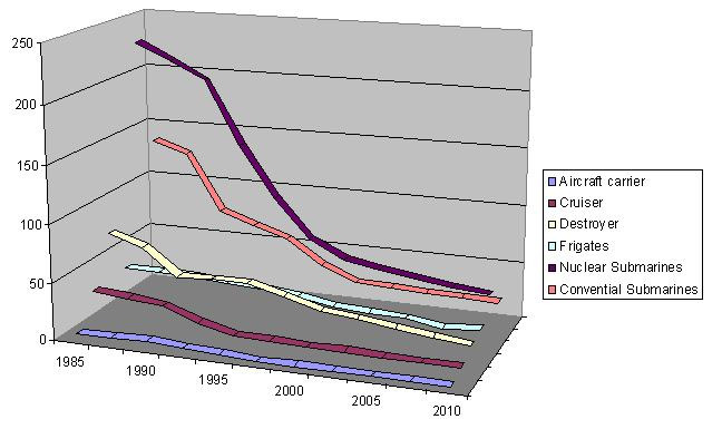 Sovjet/russian navy between the years 1985 to 2010